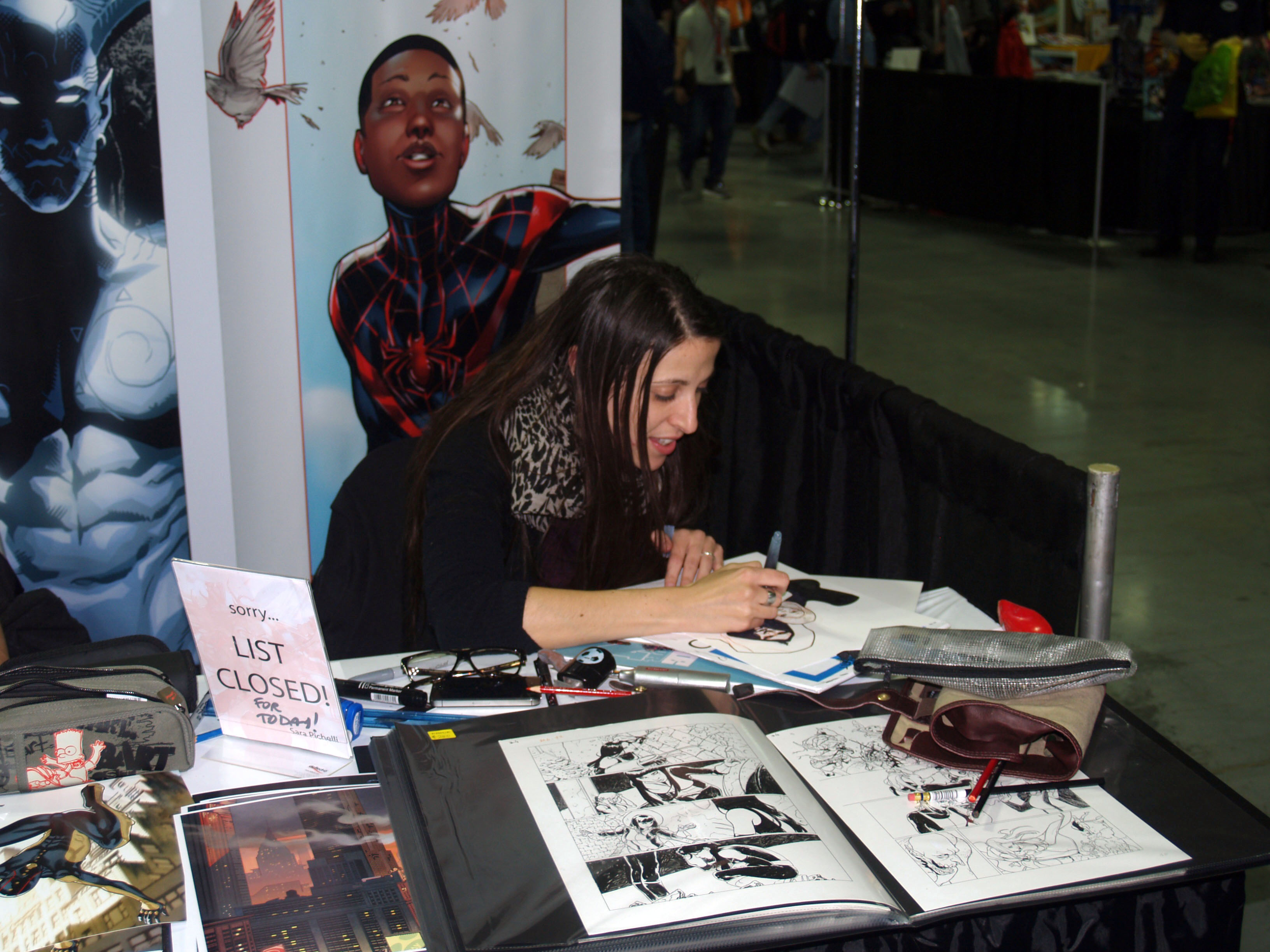 Comics creator Sara Pichelli on Saturday October 12, 2013 in Artist Alley at the Jacob K. Javits Convention Center in Manhattan, Day 3 of the 2013 New York Comic Con. This photo was created by Luigi Novi. It is not in the public domain, and use of this file outside of the licensing terms is a copyright violation.